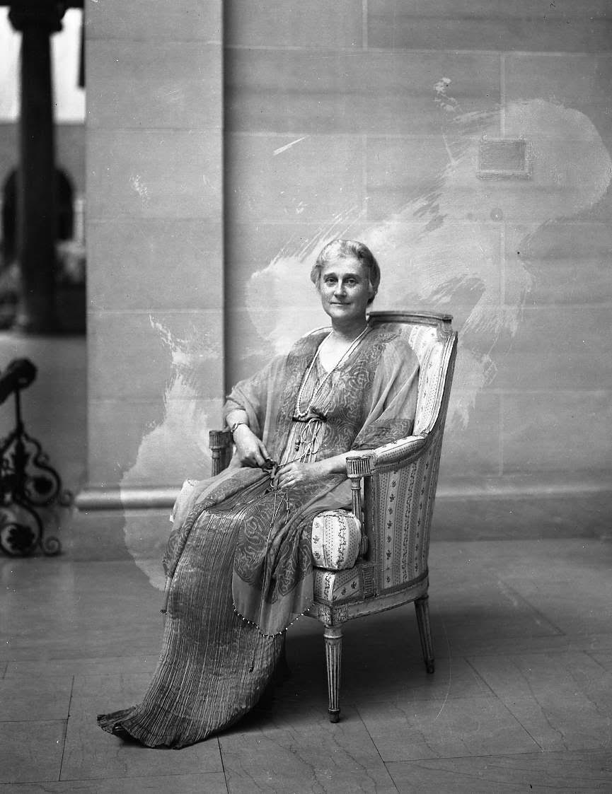 Portrait of Frederic Allen Whiting's wife